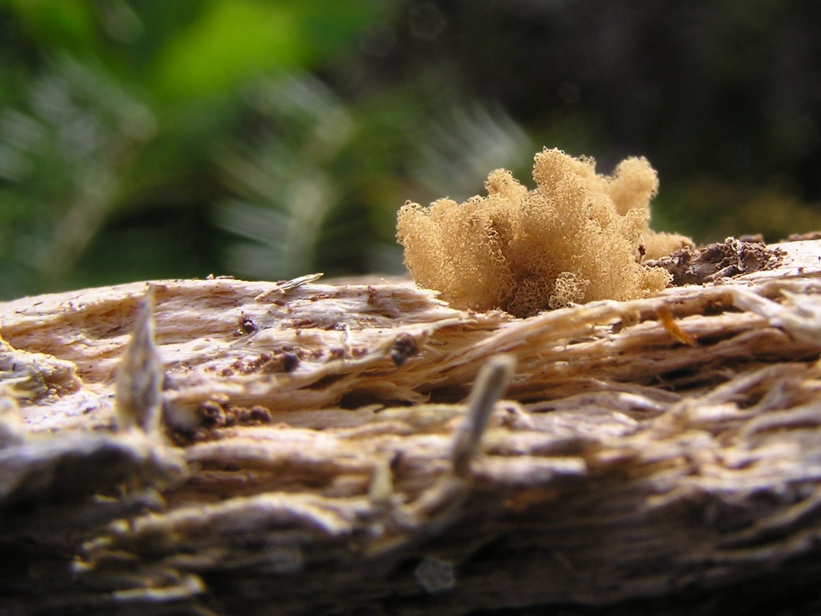 These small spongy looking, tan coloured, growths were growing downwards from the bottom side of a piece of wood at the base of a decaying pinus radiata tree stump. They are apparently the sporangia of Arcyria nutans after shedding their spores. Wellington, New Zealand.